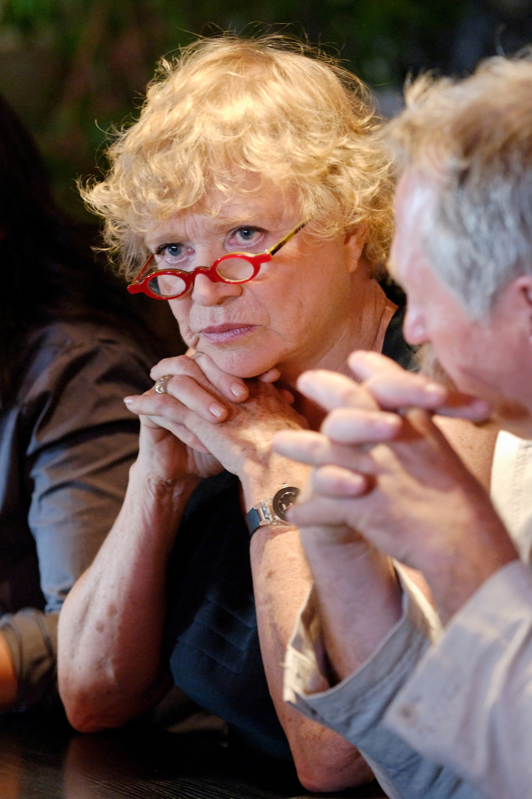 Eva Joly and José Bové (on the right) at the press conference before the closing rally of Europe Écologie at the Zenith in Paris, on June, 3 2009. Campaign for the 2009 European elections in France.